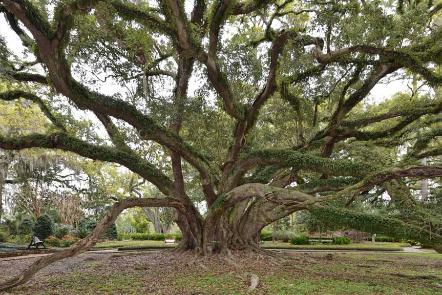 View of tree from south side facing National Champion Tree sign.